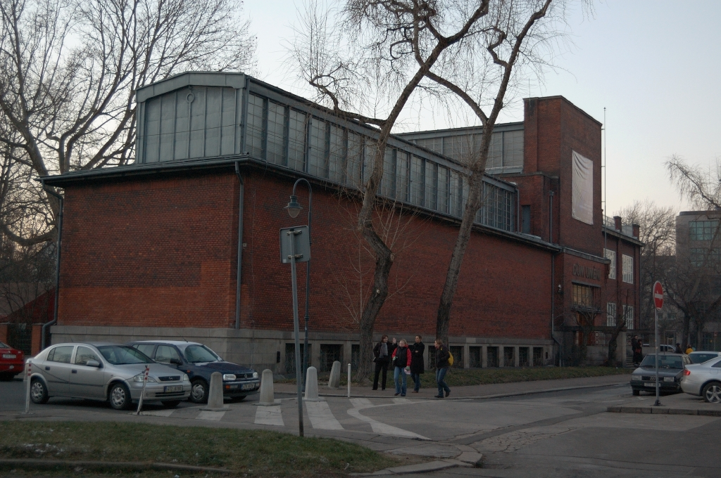 The House of fine arts in Ostrava, Czech republic.